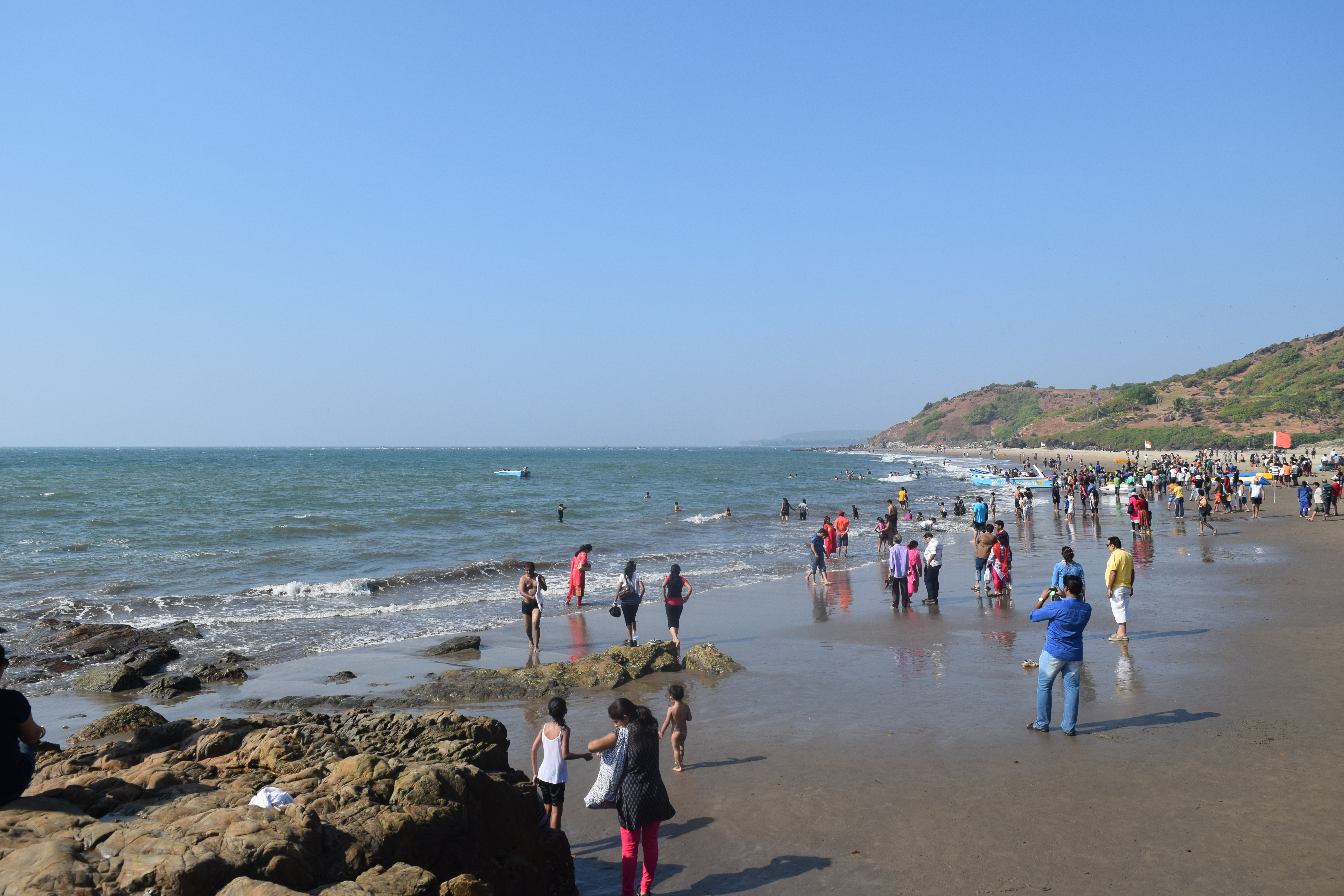 People at Vagator Beach in Goa